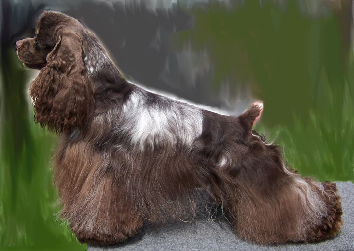 Chocolate Roan Cocker Spaniel